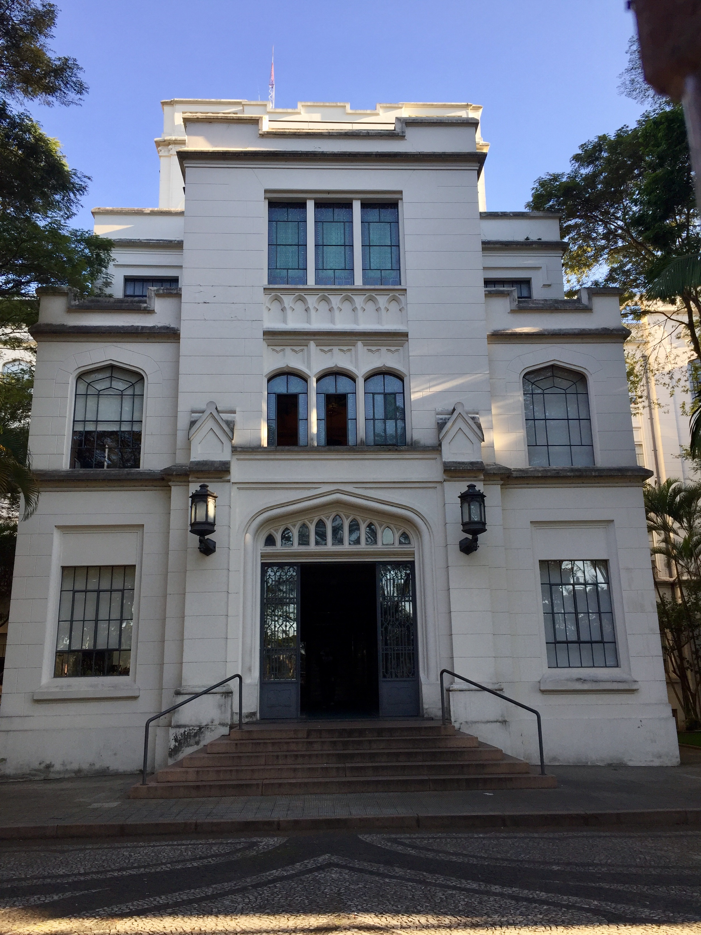 Entrance of the Faculdade de Medicina da USP (FMUSP) building, where the museum is located.